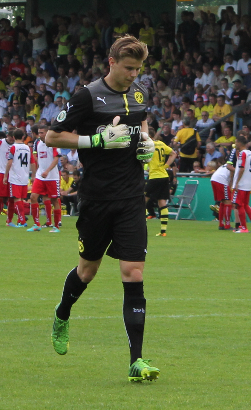 Mitchell Langerak 2013 in Wilhelmshaven